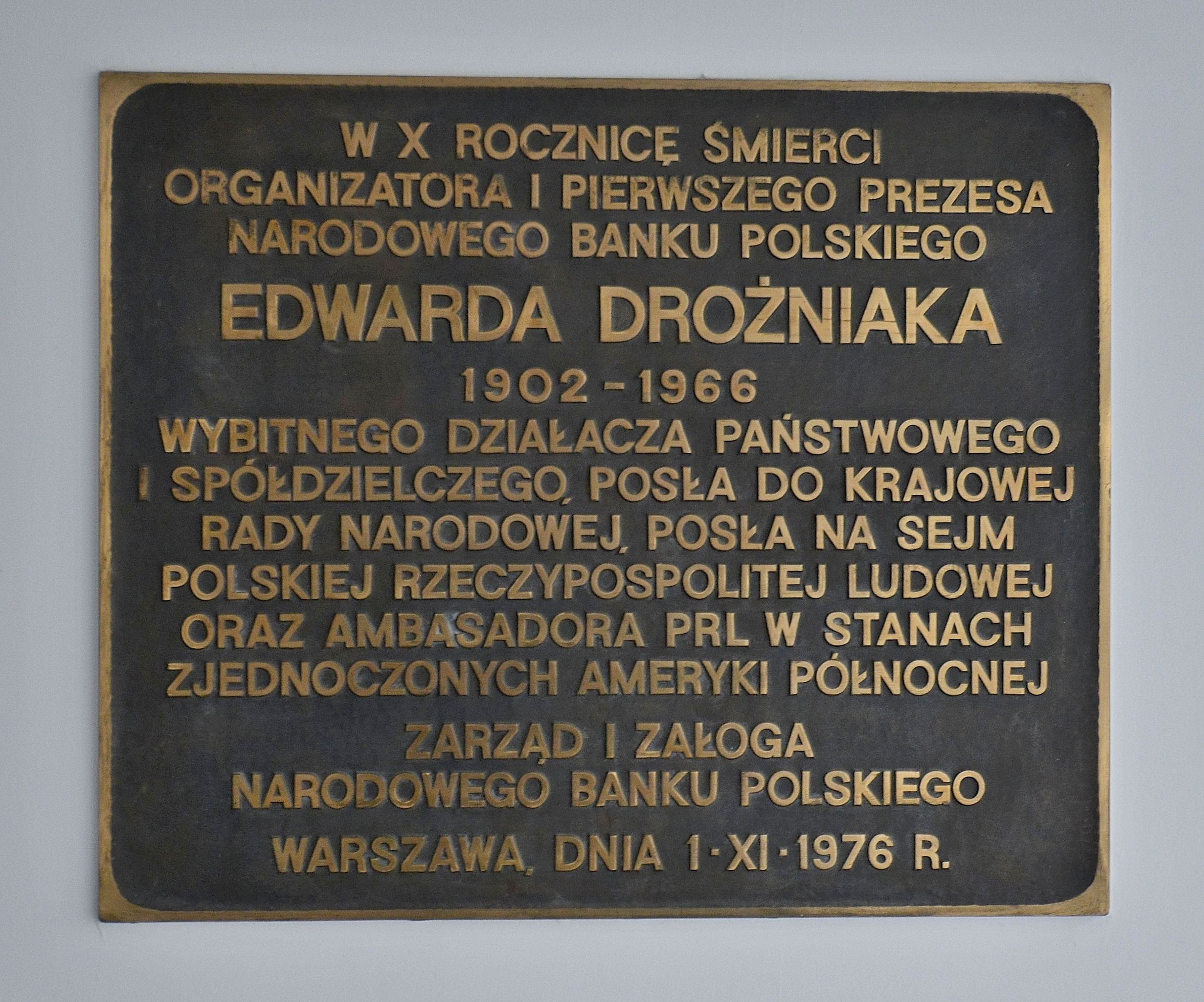 Plaque in memory of Edward Drożniak near the entrance to the National Bank of Poland main building in Warsaw